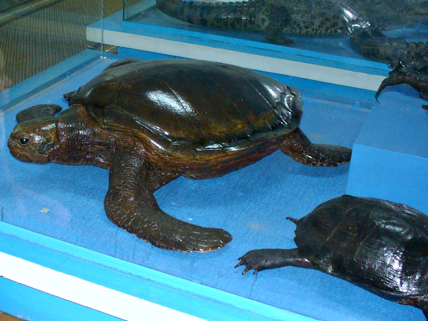 Museum of Natural History in Plovdiv - Turtles